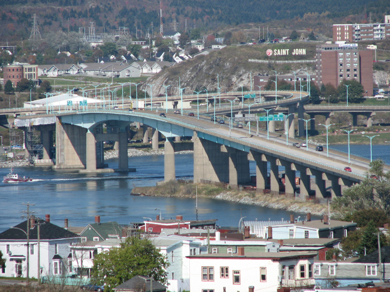 Taken by: Thomas Wetmore Taken on: October 8, 2006